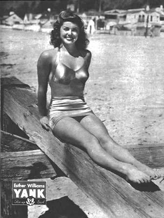 Pin-up photo of Esther Williams for the Oct. 12, 1945 issue of Yank, the Army Weekly, a weekly U.S. Army magazine fully staffed by enlisted men.